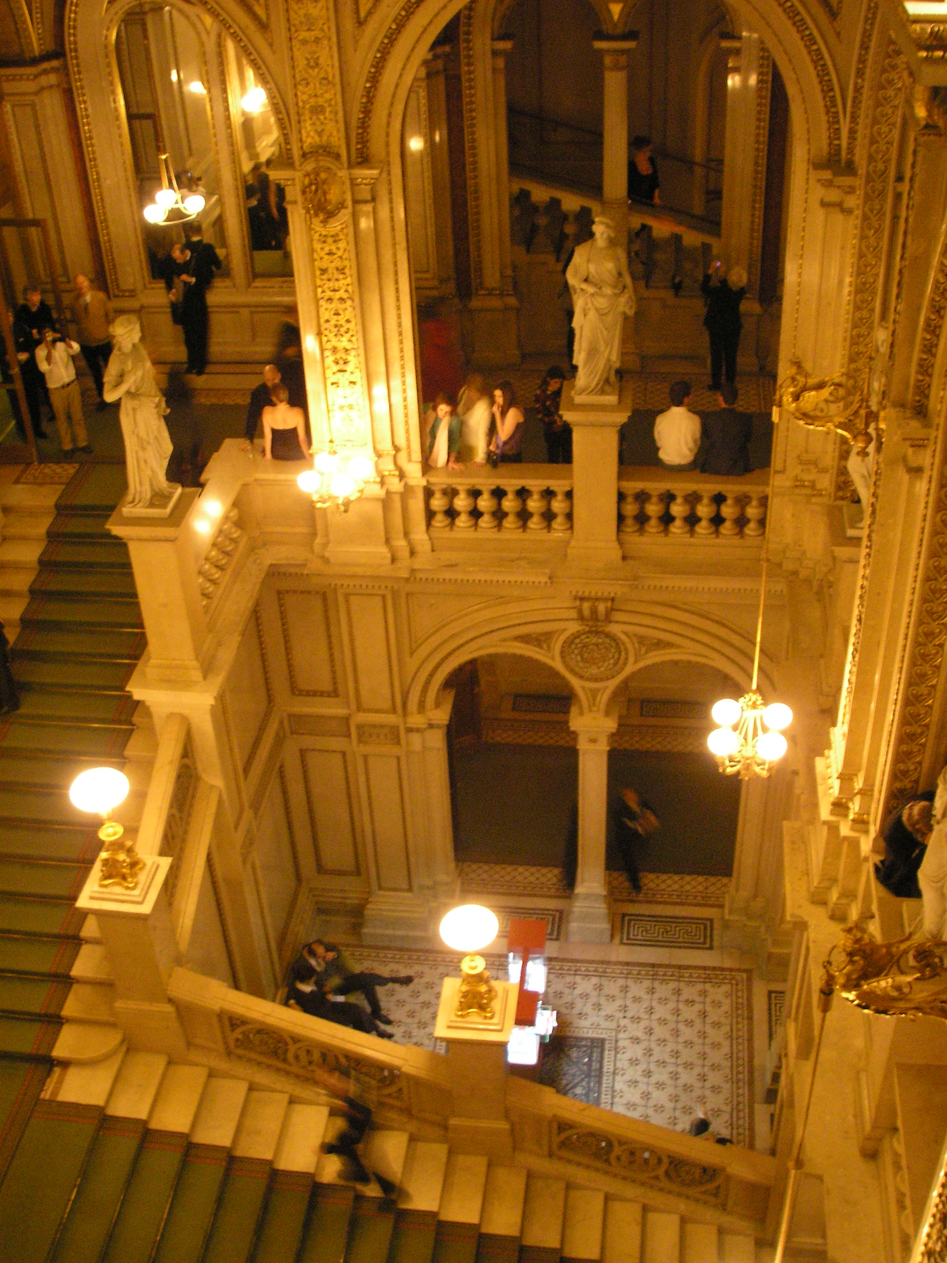 View from the grand staircase in the Vienna State Opera.